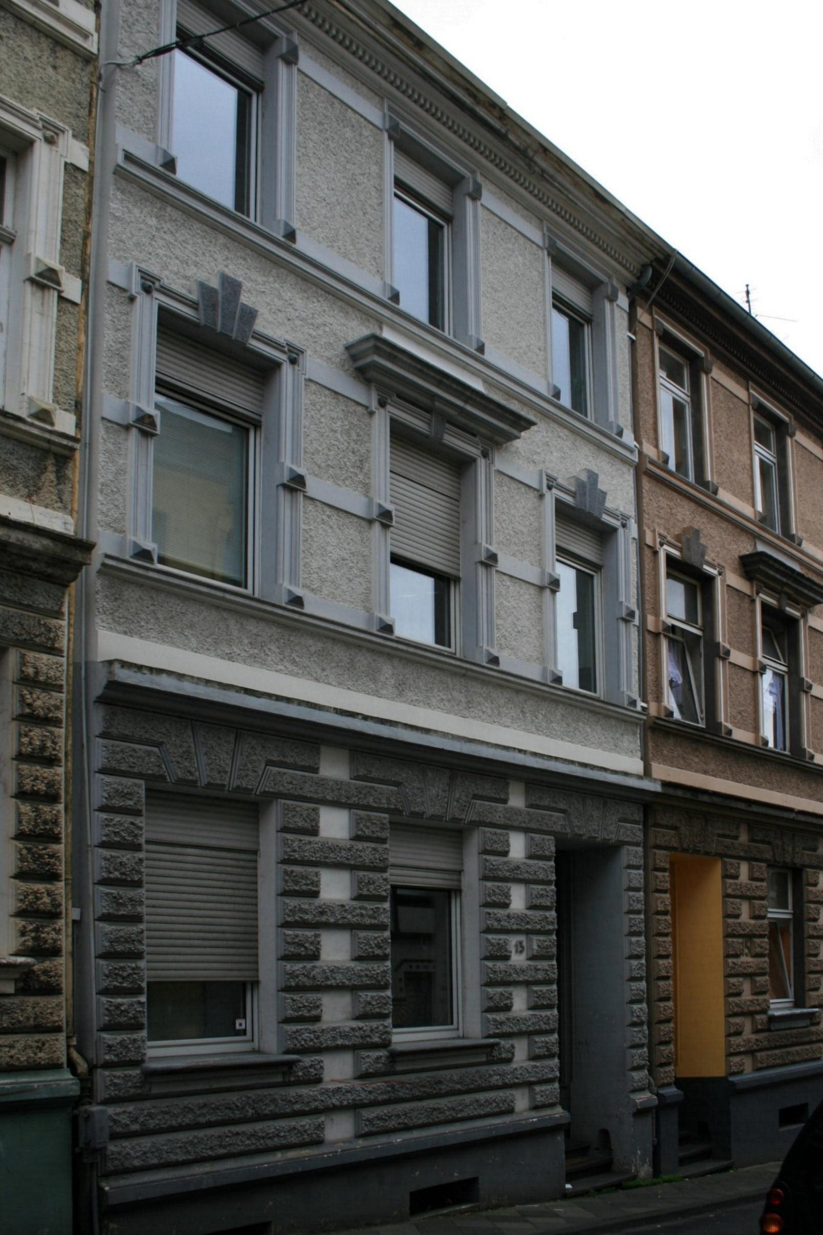 Cultural heritage monument No. L 020 in Mönchengladbach